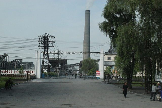 This is the entrance of the February 8 Vinalon Complex in Hungnam North Korea.